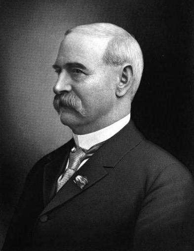 Theodore Legrand Burnett (1829-1917) From Volume III of 1912's "A History of Kentucky and Kentuckians" by E. Polk Johnson.